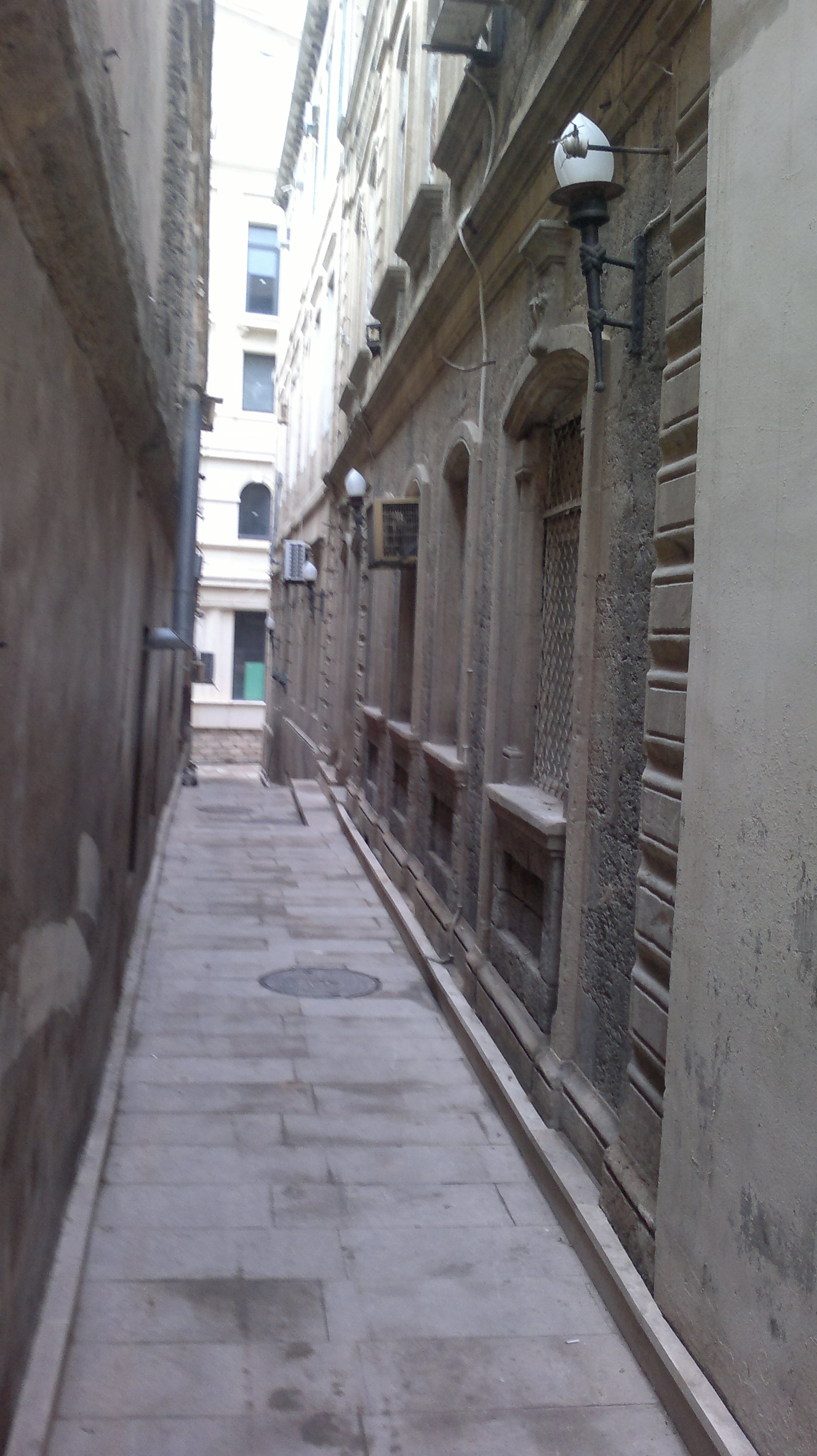 Muslim Magomayev in Baku